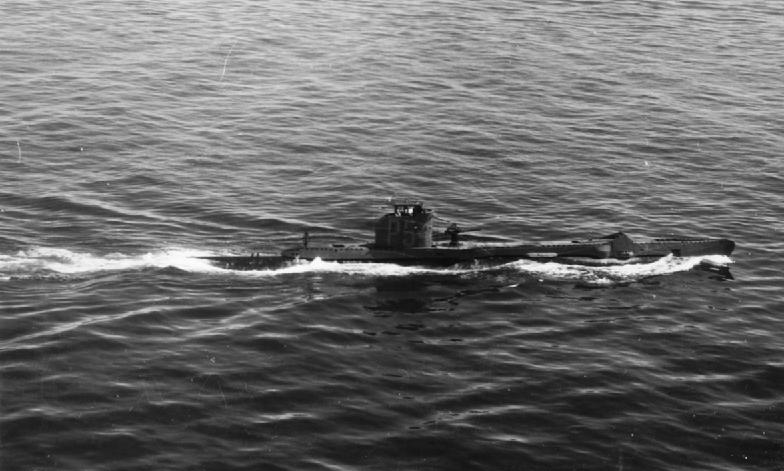 Aerial photograph of British U class submarine HMSM UNSHAKEN underway.